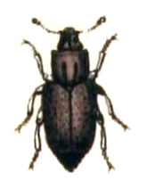 Monotoma picipes, from Calwer's Käferbuch, Table 46, Picture 7. Taxonomy was updated to 2008, using mostly the sites Fauna Europaea and BioLib. Please contact Sarefo if the determination is wrong!